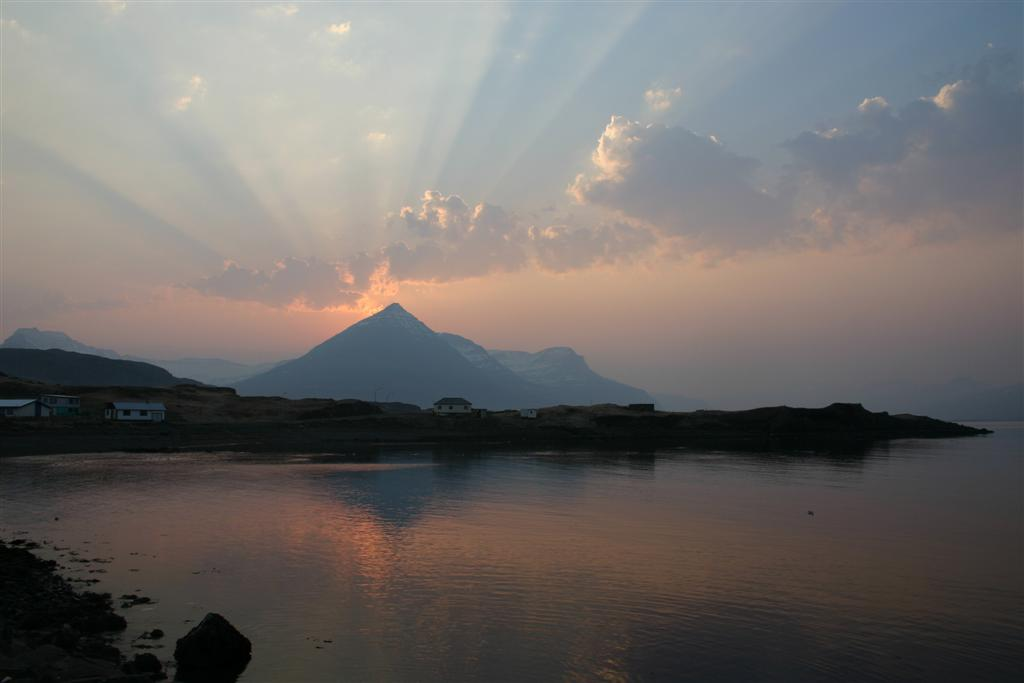 Búlandstindur á Djúpavogi